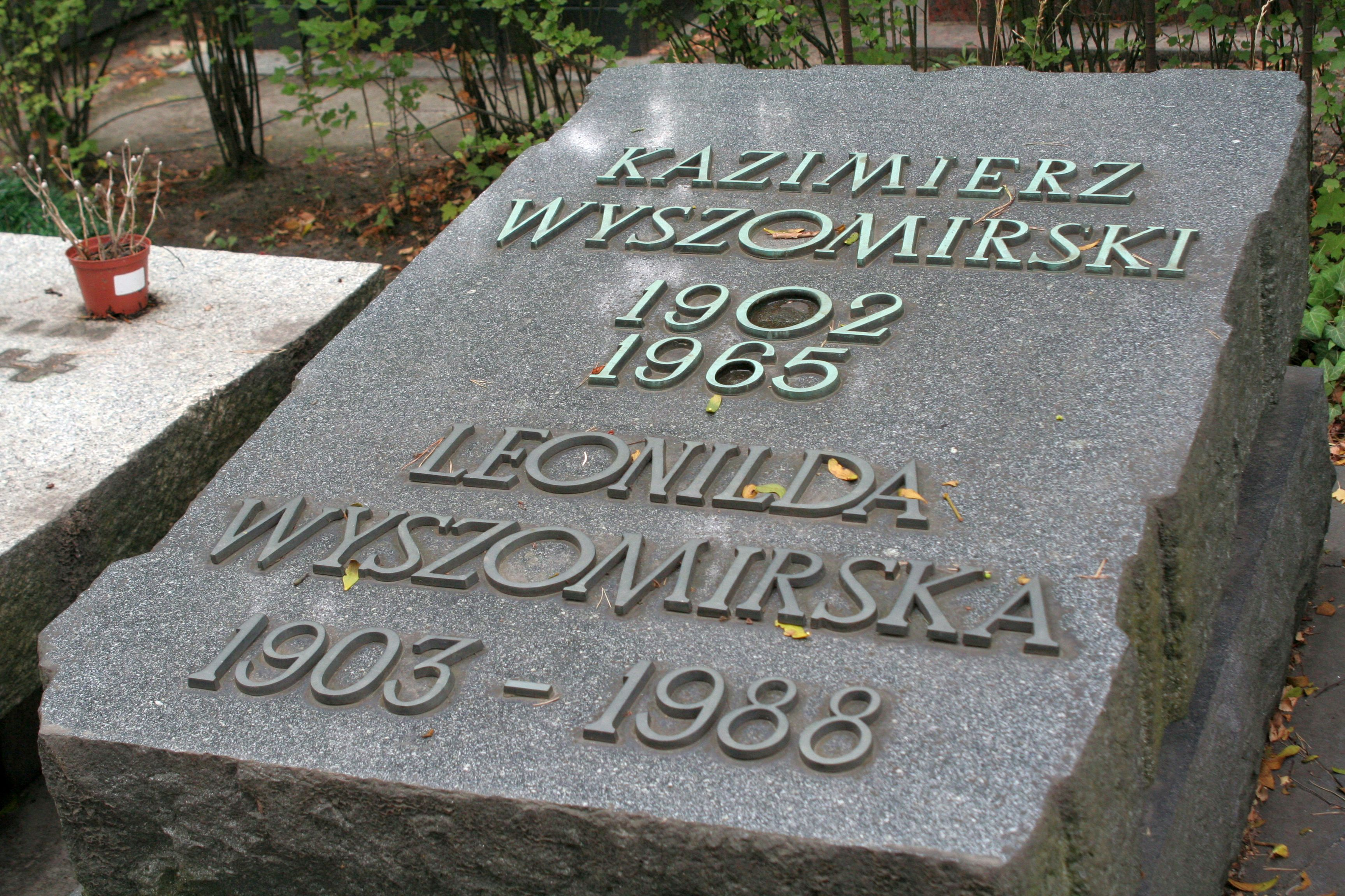 The grave of Kazimierz Wyszomirski and Leonilda Wyszomirska at Warsaw Military Cemetery.